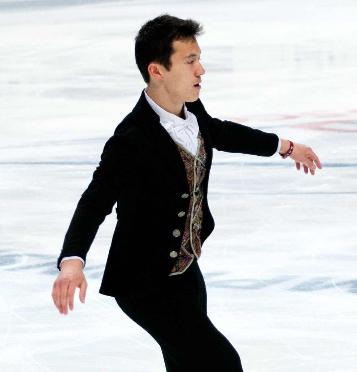 2011 World Figure Skating Championships, free skating.